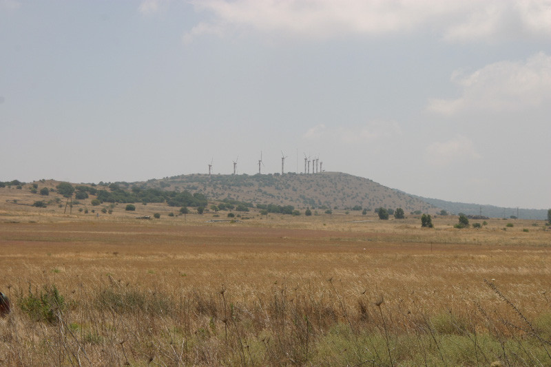 Windmills in the Golan Heights, Israel.